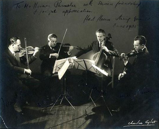 Hart House String Quartet in their 1935 configuration (James Levey, Milton Blackstone, Boris Hambourg and Harry Adaskin). The photograph is signed for their Manager Horace Parmalee.